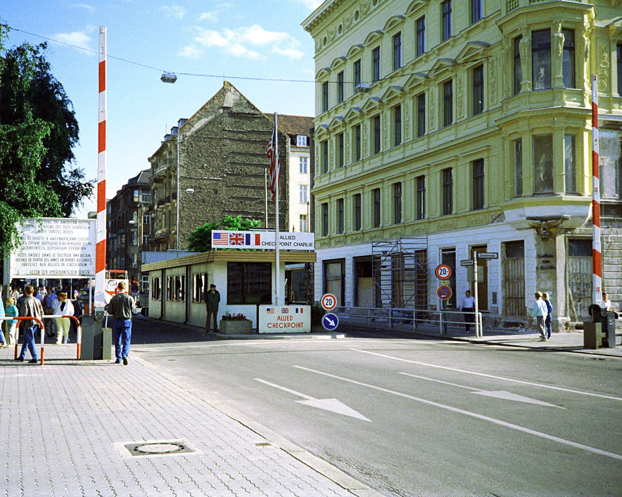 Checkpoint Charlie, Berlin BRD View of the Allied checkpoint from the East German checkpoint.